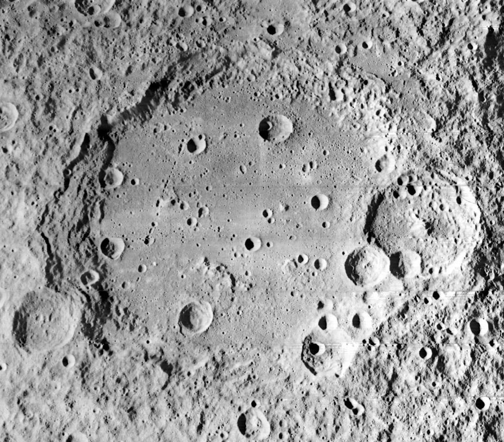 Mendeleev (crater), on the moon.